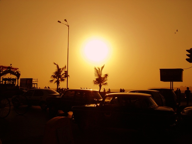 A photo of sunset at rush hour in Mumbai